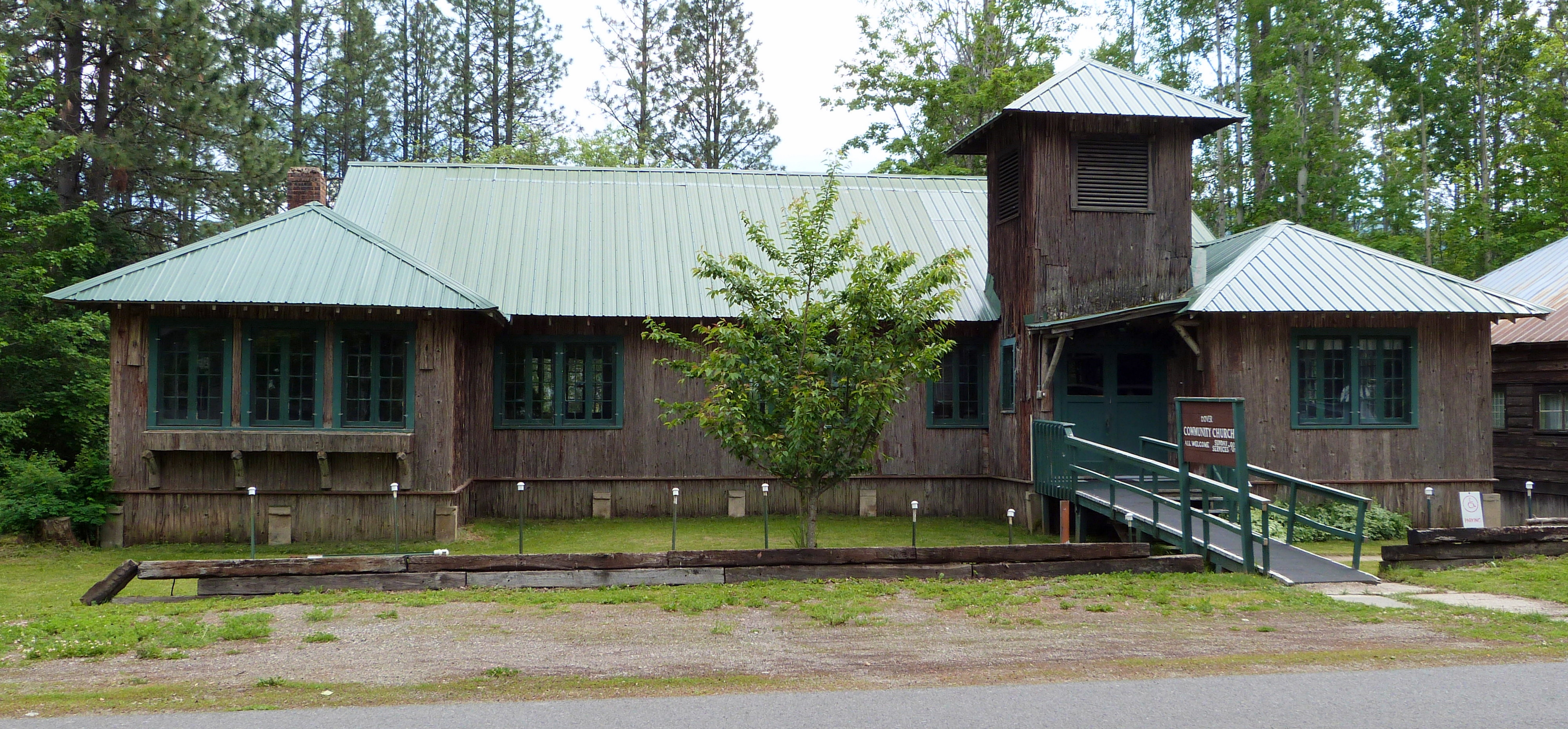 The historic Dover Church (built ca. 1920, relocated 1923), located on Washington Avenue in Dover, Idaho, United States, is listed on the US National Register of Historic Places.